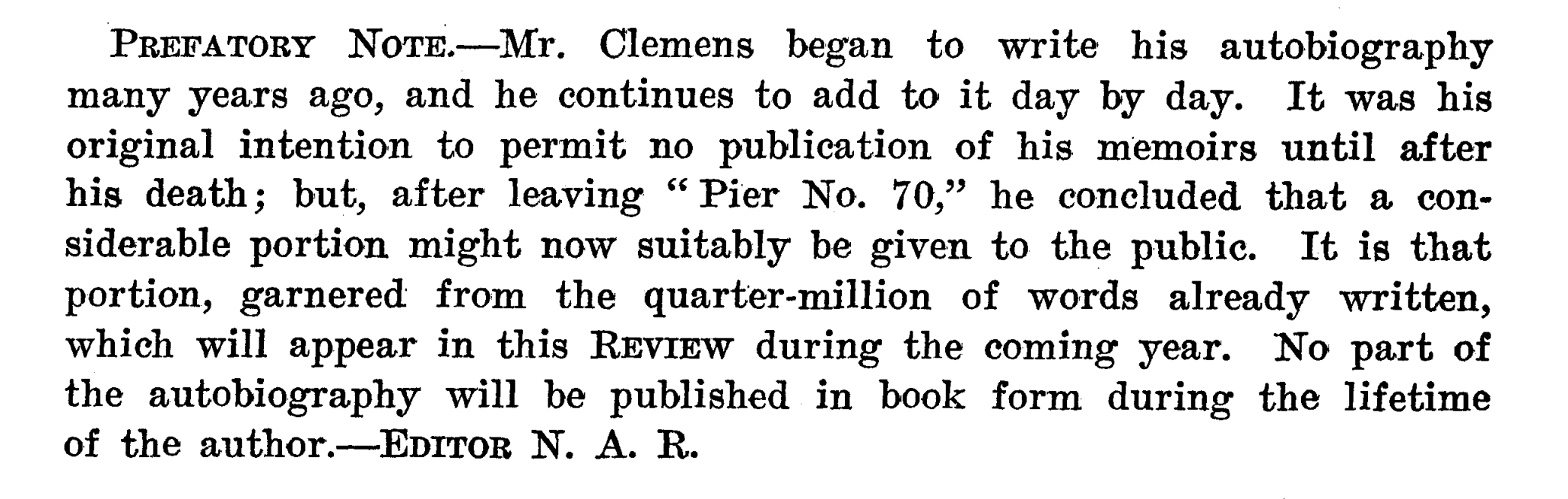 As each installment of Mark Twain's "Chapters from My Autobiography" appeared in the North American Review in 1906 and 1907, this prefatory note appeared.